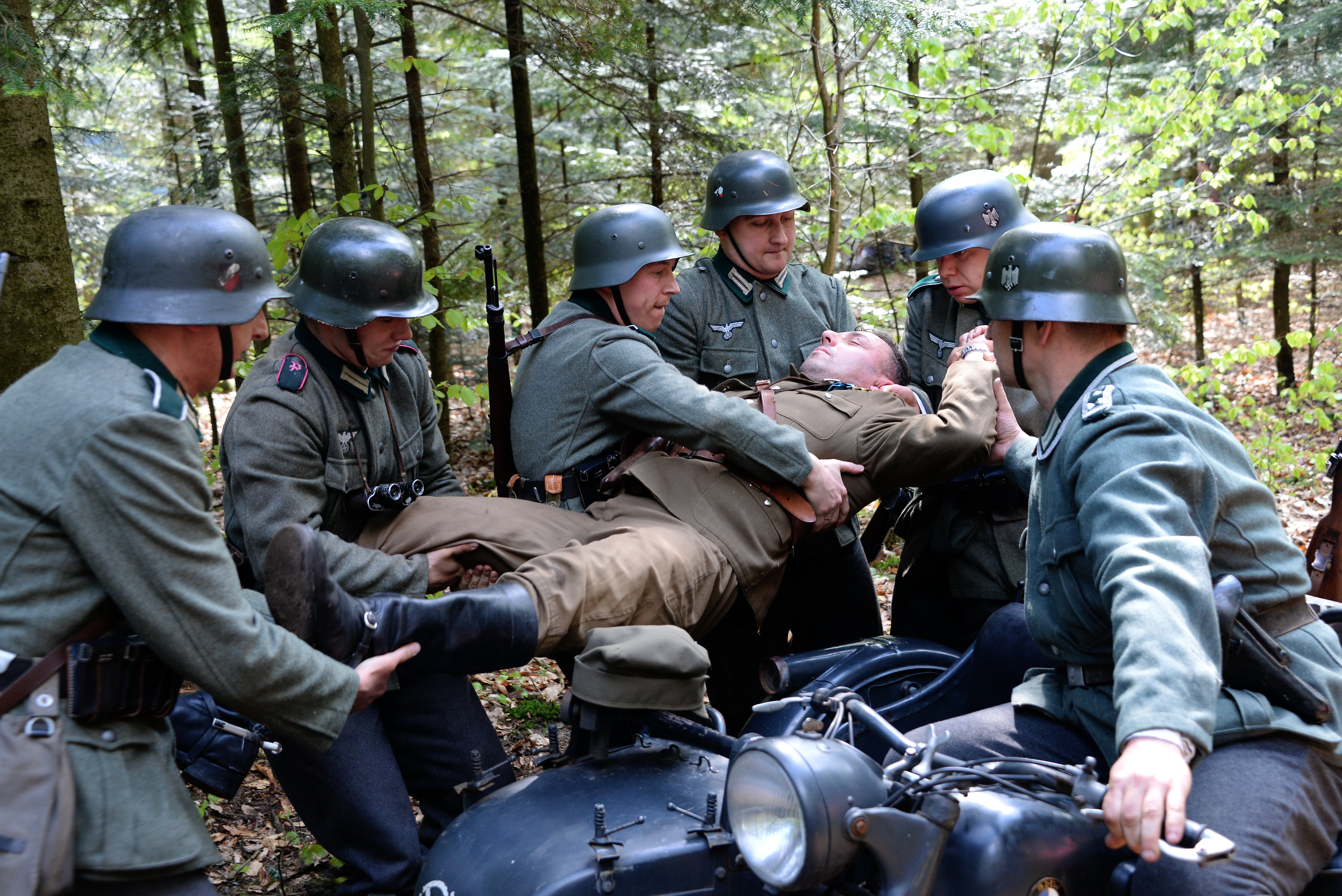 Death of Major Hubal at World War II Reenactment Cavalry Picnic in Bliżyn; Śmierć Majora Hubala na rekonstrukcji z okresu II wojny Światowej, Pikniku Kawaleryjskim w Bliżynie